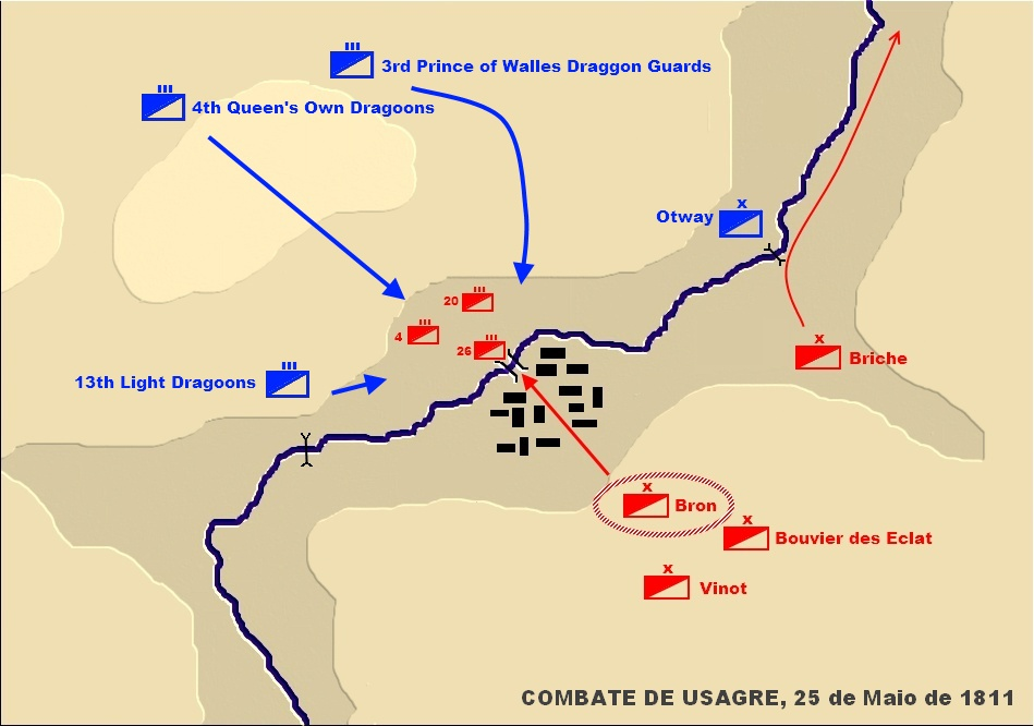 Map showing layout of Combat Usagre (May 25, 1811)